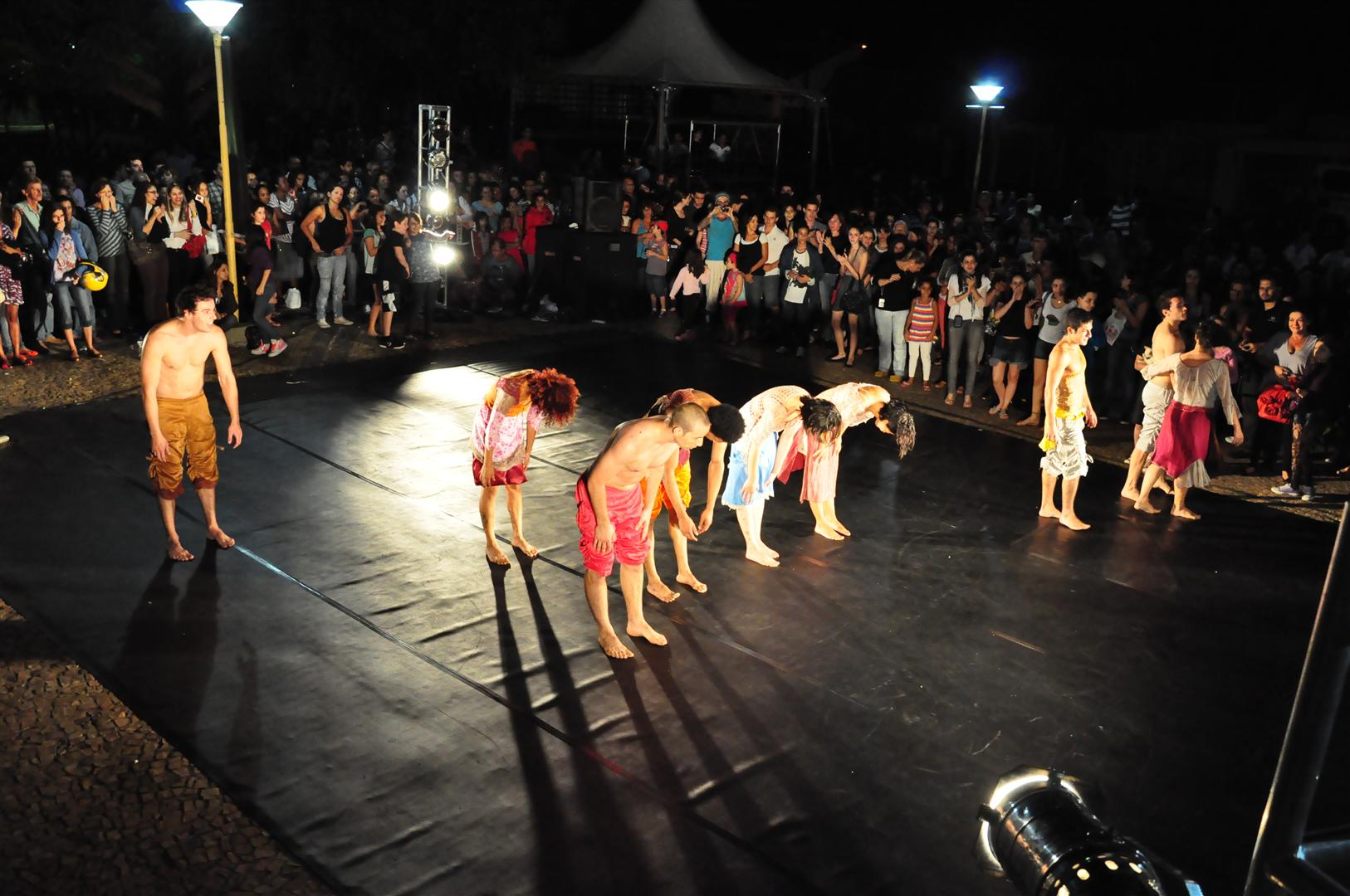 Presentation of Cia. de Dança de Diadema in Votuporanga, São Paulo, Brazil.